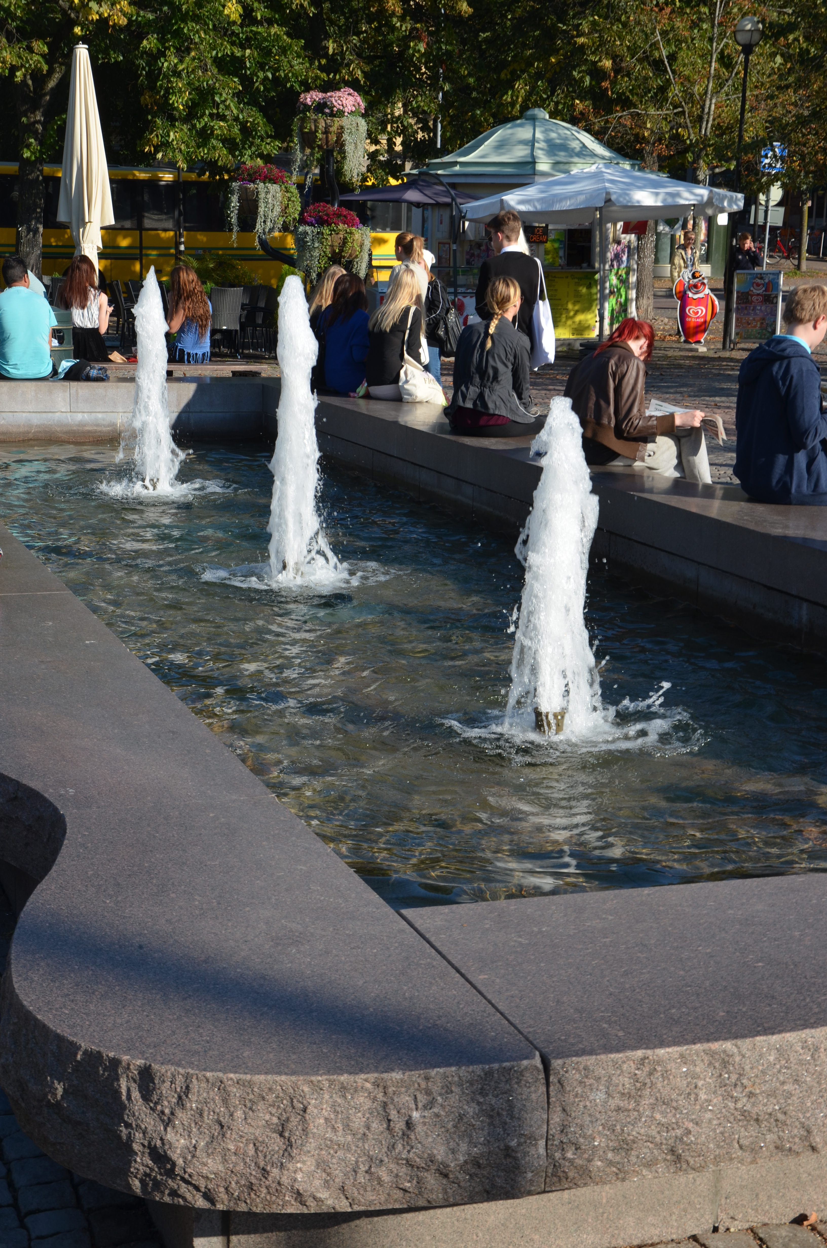 Jenny Holzers For Karlstad på¨Stora Torget i Karlstad